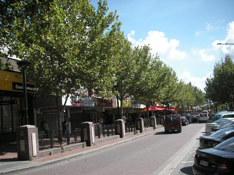 Main Street, Blacktown, NSW